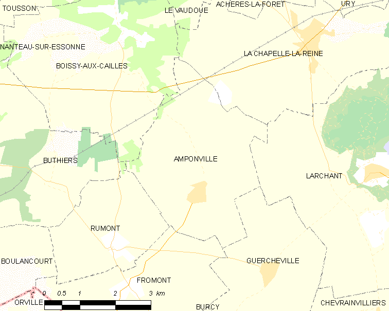 Map of French municipality Amponville